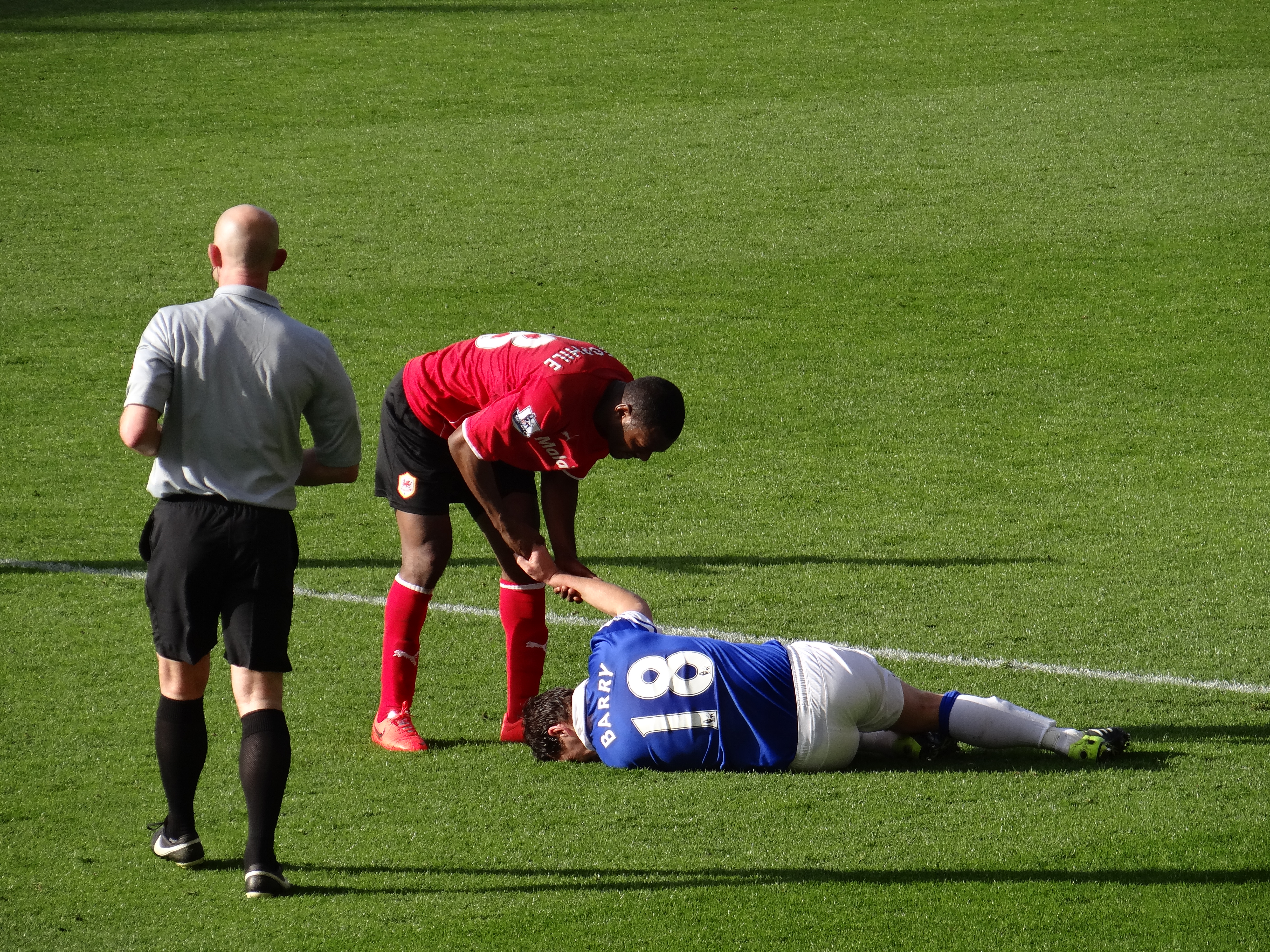 French football player of Cardiff City Kévin Théophile-Catherine apologizes to fouled English player Garreth Barry from Everton. Roger East was the referee.